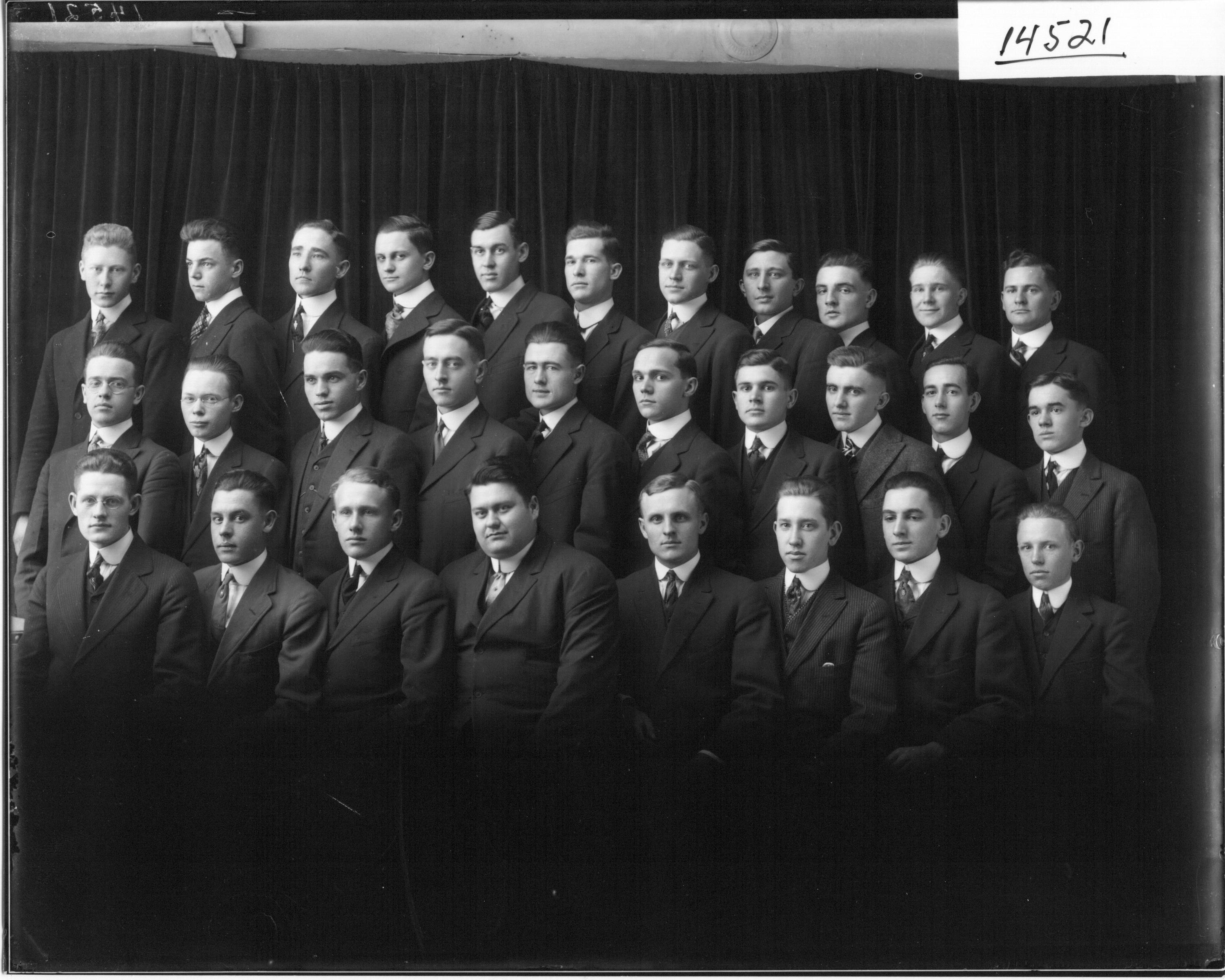 Persistent URL: Subject (TGM): Fraternal organizations; Fraternities and sororities; Student organizations; Group portraits; Location: Oxford, Ohio Founded as the Non-Fraternity Association to give Miami's non-fraternity men a voice in campus political affairs, the organization changed its name to Phrenecon on March 6, 1909 because the name Non-Fraternity Association seemed too negative.Group of 29 men